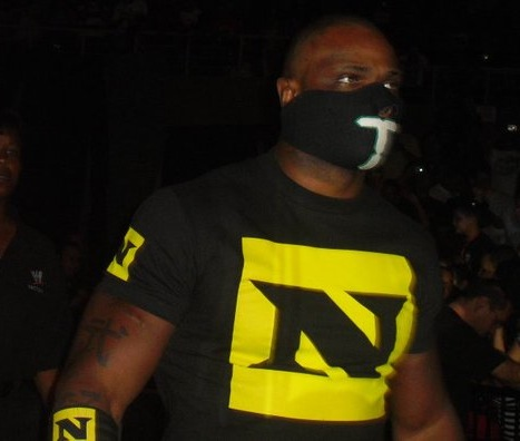 Michael Tarver at a Puerto Rico WWE House show.